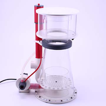 Cone Skimmers have gained in popularity in the aquatics industry since their introduction in the late 2000s.